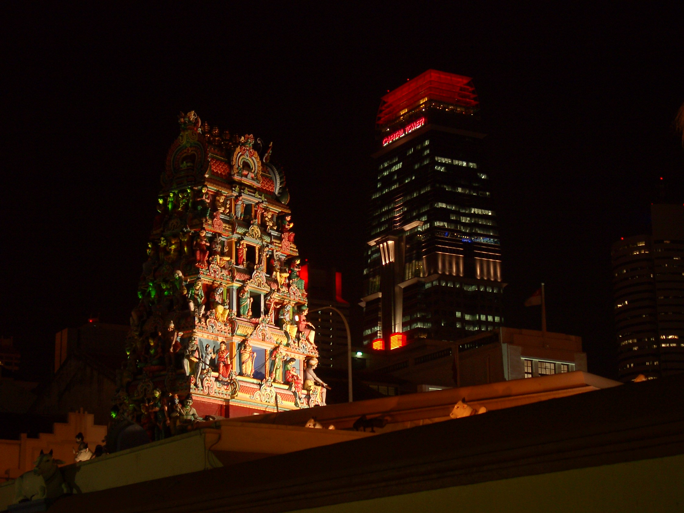 The gopuram of Sri Mariamman Temple in Singapore at night, with Capital Tower in the background.